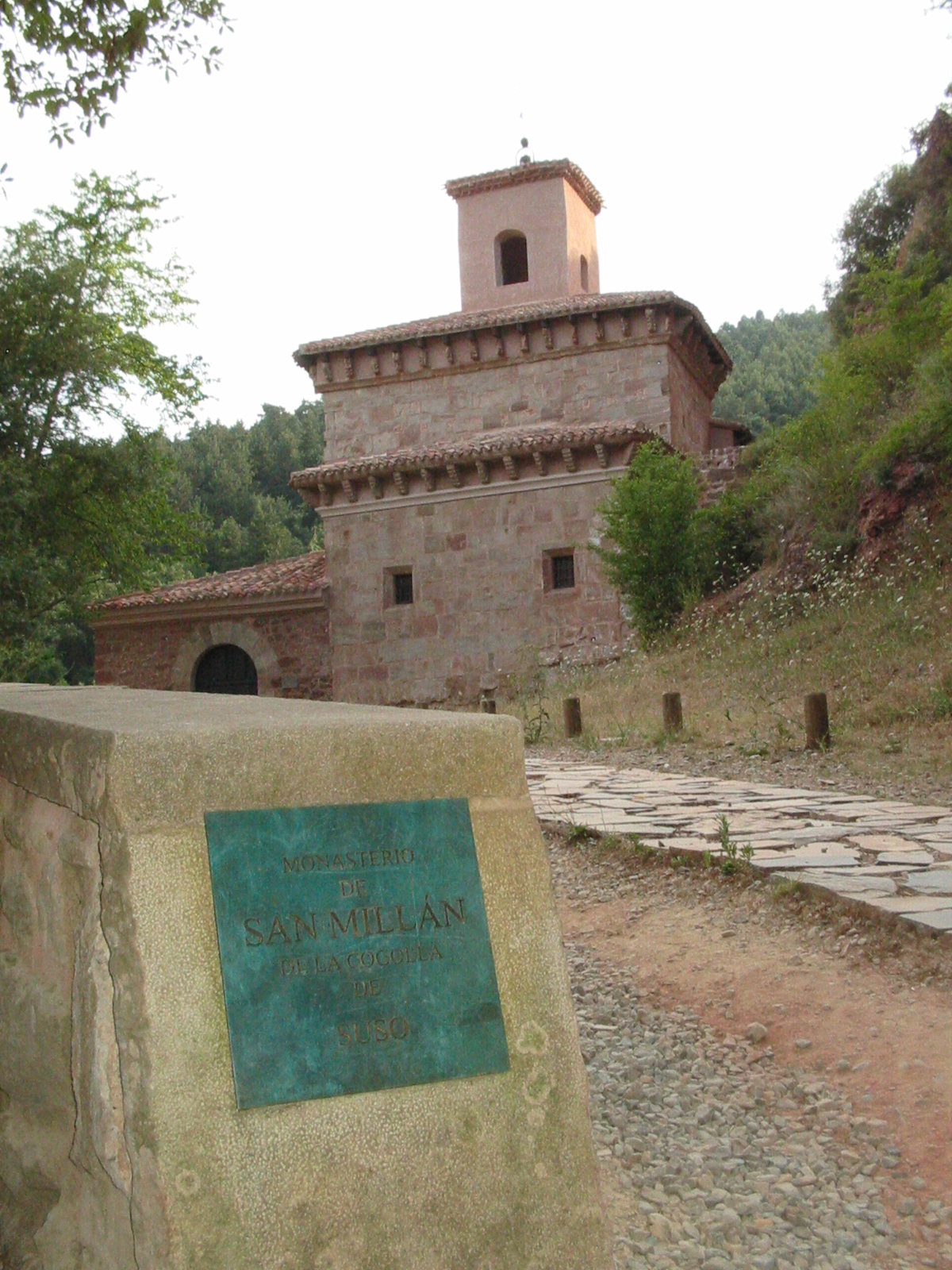 Monastery of Suso (uphill) of San Millán de la Cogolla in La Rioja (Spain)